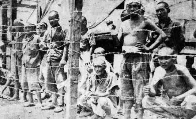 A GROUP OF Japanese WAR PRISONERS